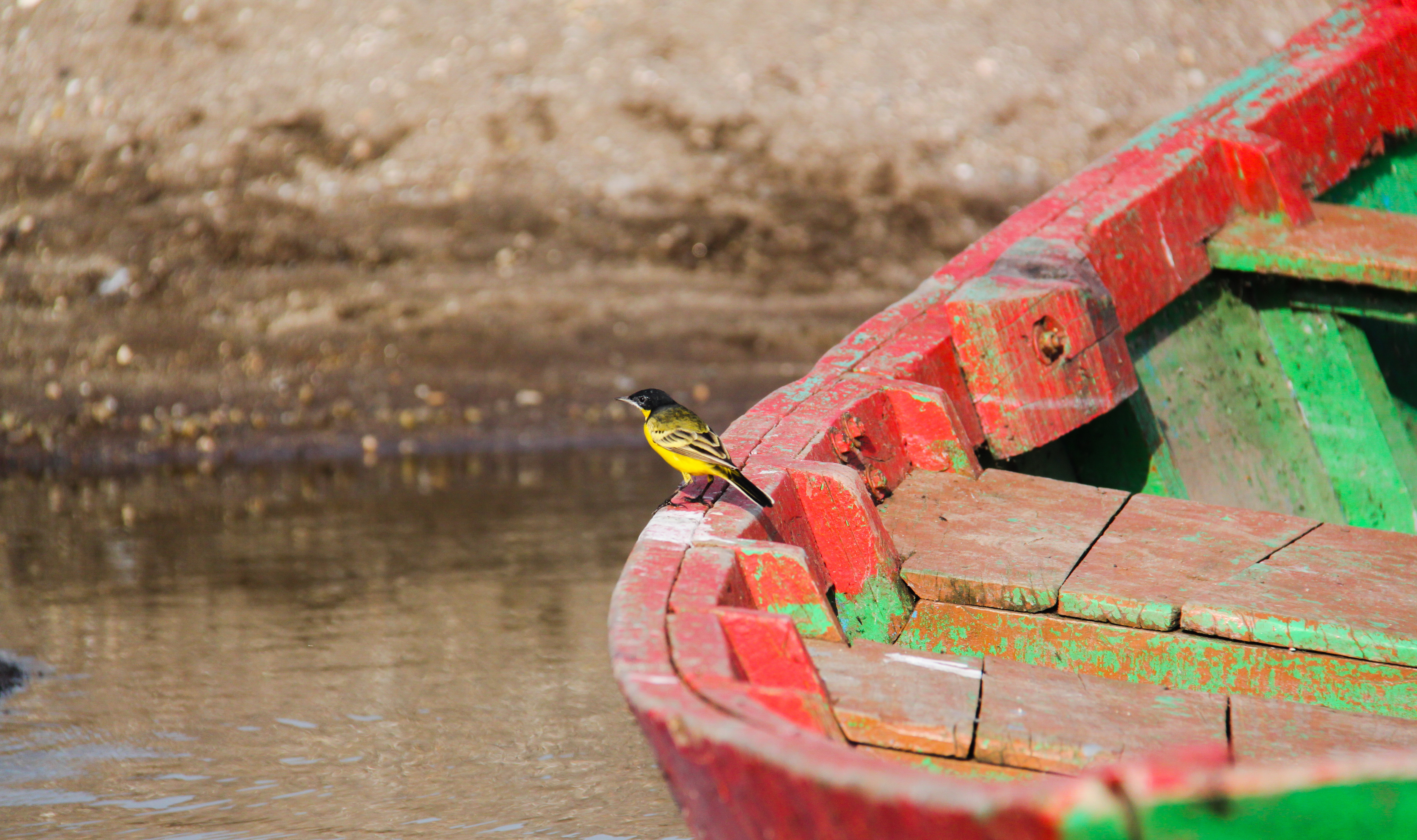 Dark-headed wagtail or grey-headed wagtail Head dark grey, reaching down to the cheeks, and without white in males; lighter and washed greenish, with vestigial greenish supercilium in females. Breeding: central and northern Scandinavia east to north-west Siberia. Winter: eastern Africa, Indian subcontinent, Southeast Asia.